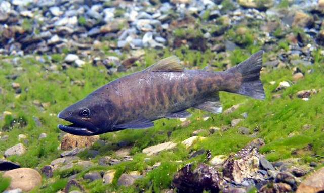 Oncorhynchus masou formosanus